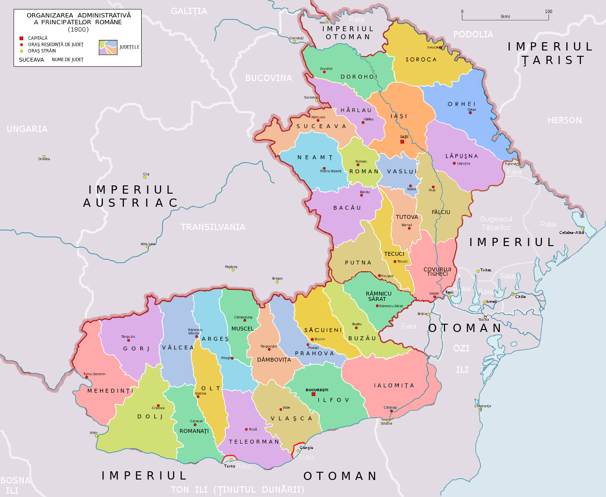 Judetse (counties) of Moldavia & Wallachia 1800, derivative work since Arnold Platon's 1878-1913 judetse map, according with N. Iorga's and C. Giurescu maps